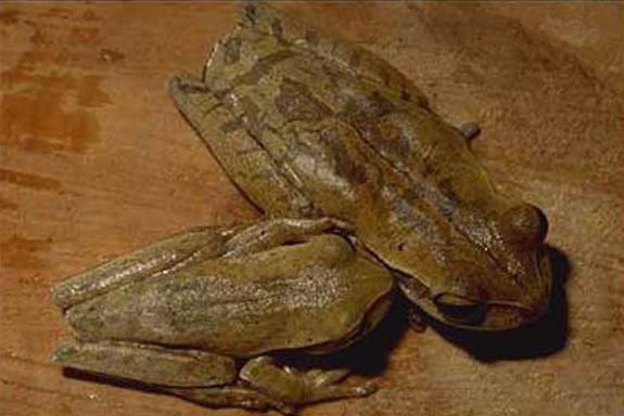 Hypsiboas bischoffi